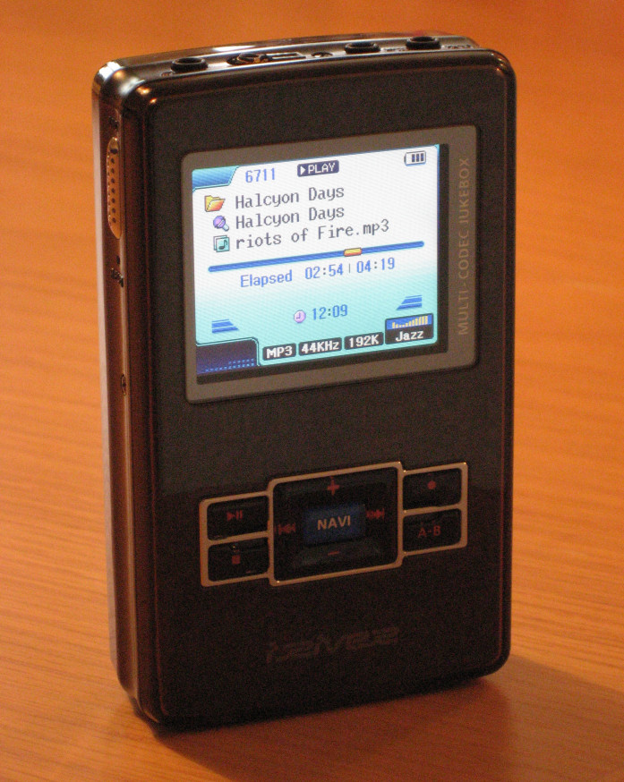 This is a photo of an iRiver H340 taken by User:Abelson.